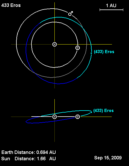 433 Eros orbit diagram, obtained using JPL Small-Body Database data. Top picture shows the projections of Mars and 433 Eros orbit on the plane of Earth orbit (Plane of the ecliptic); bottom picture shows 433 Eros orbit inclination respect to on the plane of Earth orbit. Earth, Mars and 433 Eros positions on the September 15th, 2009 are reported.